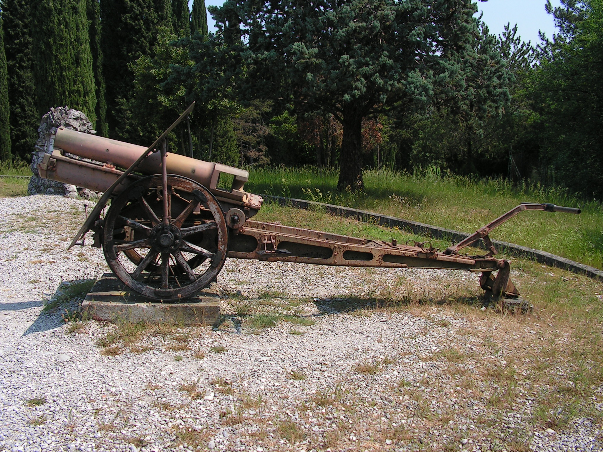 15 cm Austro-Hungarian M 14 mountain howitzer - italian as Obice da 150/17 mod. 14